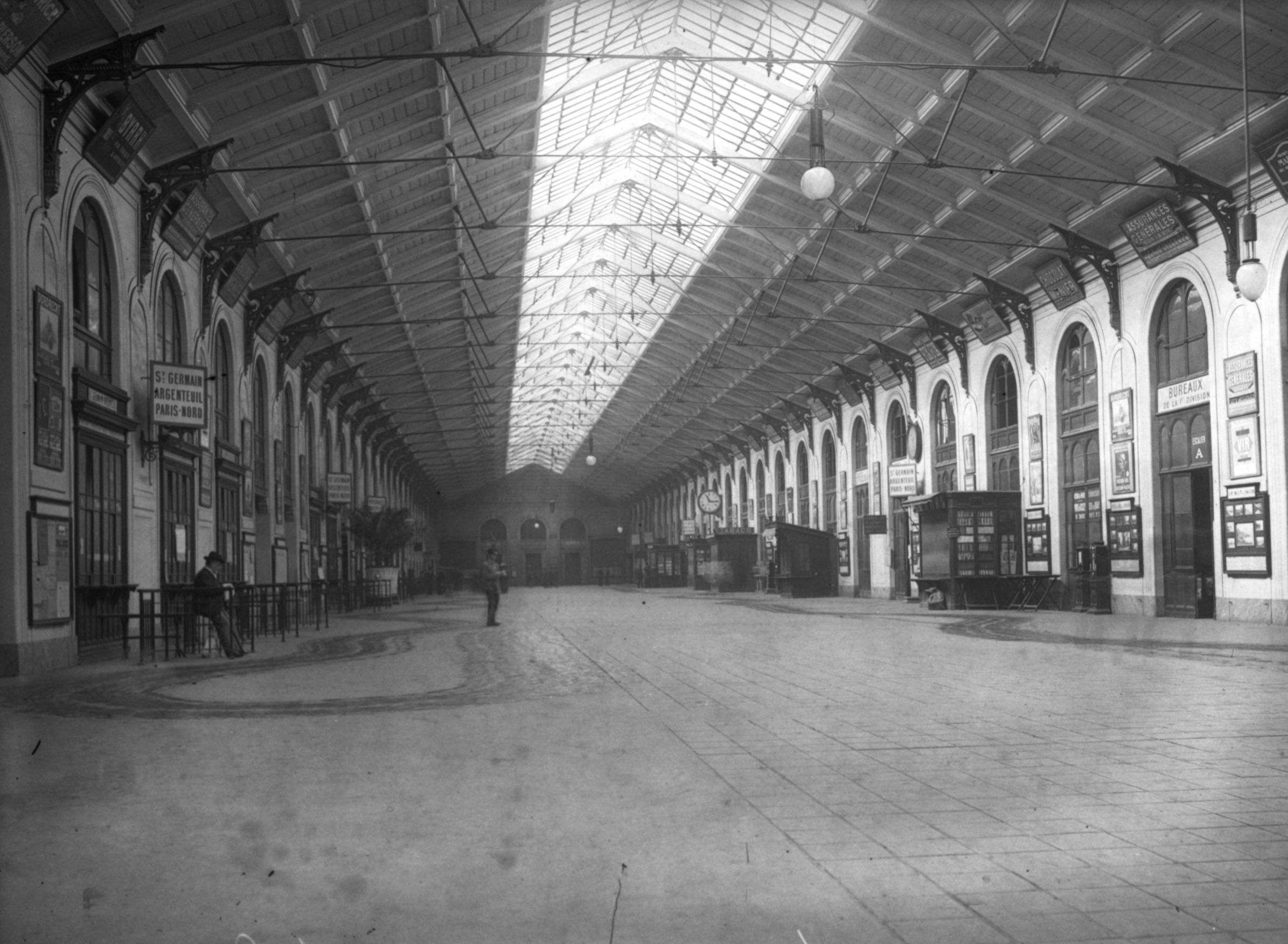 The main hall of the train station Paris Saint-Lazare during the strike of october 1910.